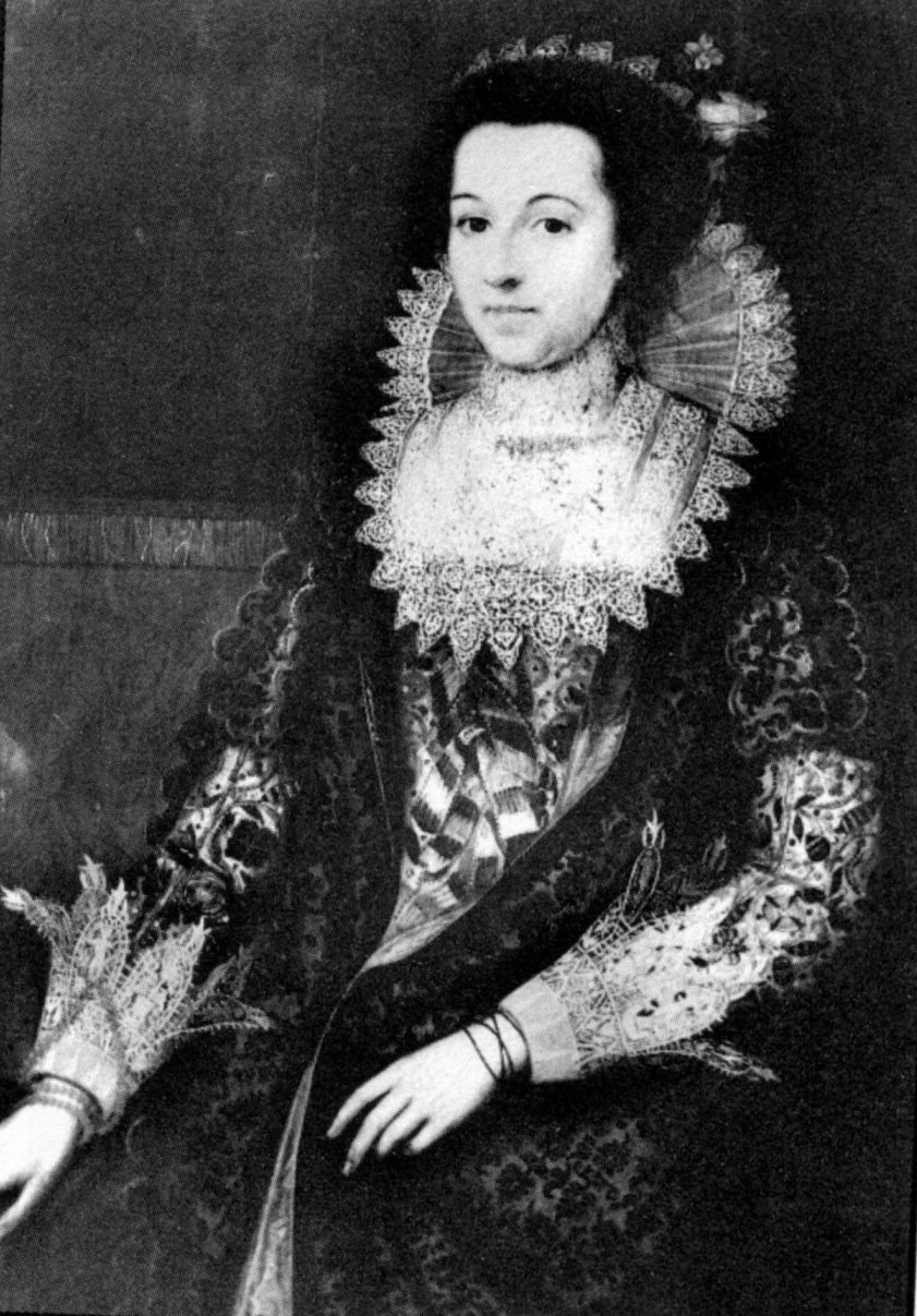 Portrait of Elizabeth Throckmorton, wife of Sir Walter Raleigh